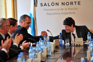 The Governor of the Chubut Province, Martín Buzzi, with the Chief of the Cabinet of Ministers of Argentina, Juan Manuel Abal Medina in the Casa Rosada.